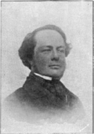 portrait of Frederick Merriman from The Cyclopedia of New Zealand